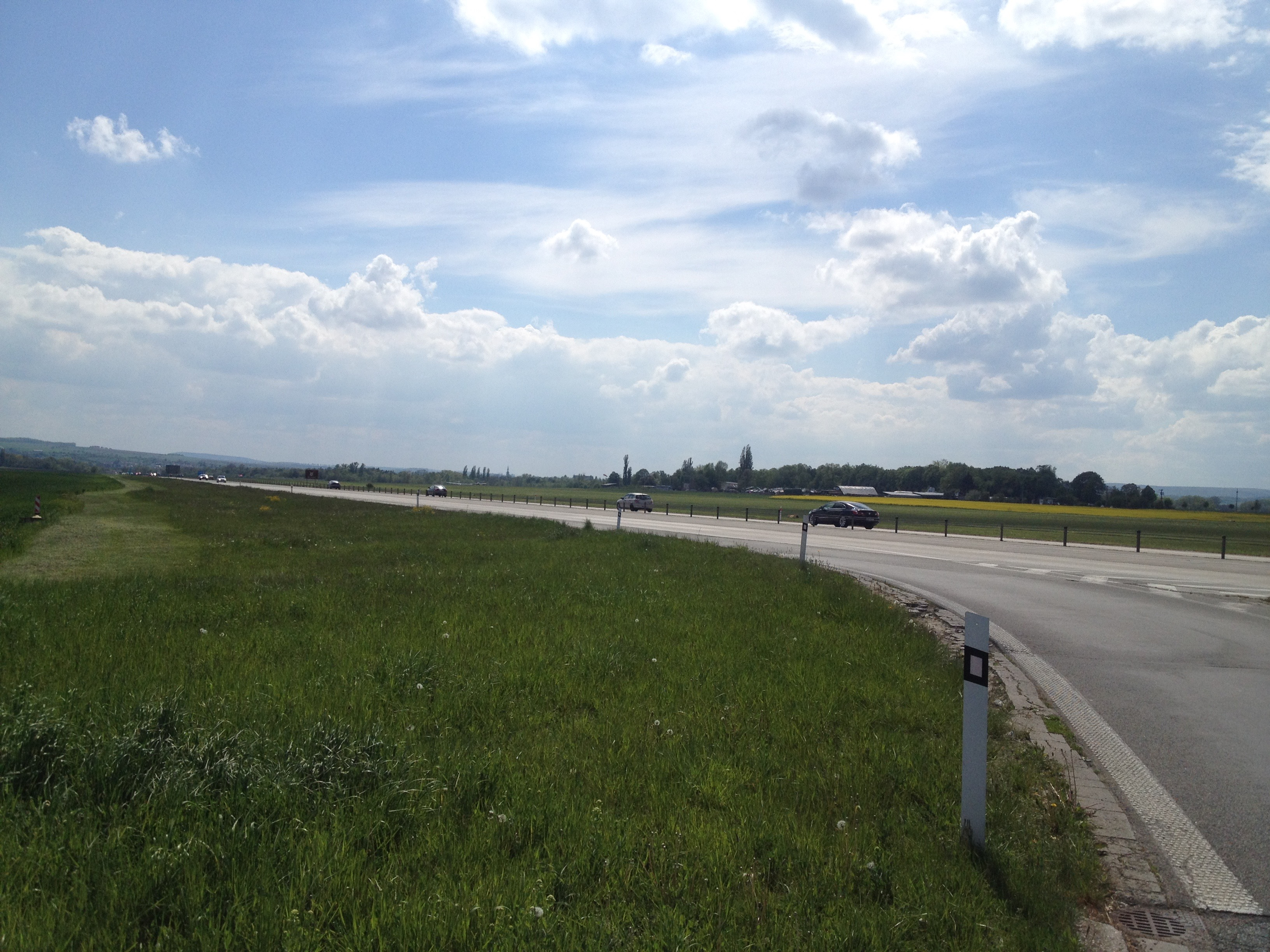 Czech highway D46 on its 4th kilometr in direction to Vyškov at airport by Pustiměř, where the highway section can be used as runway.